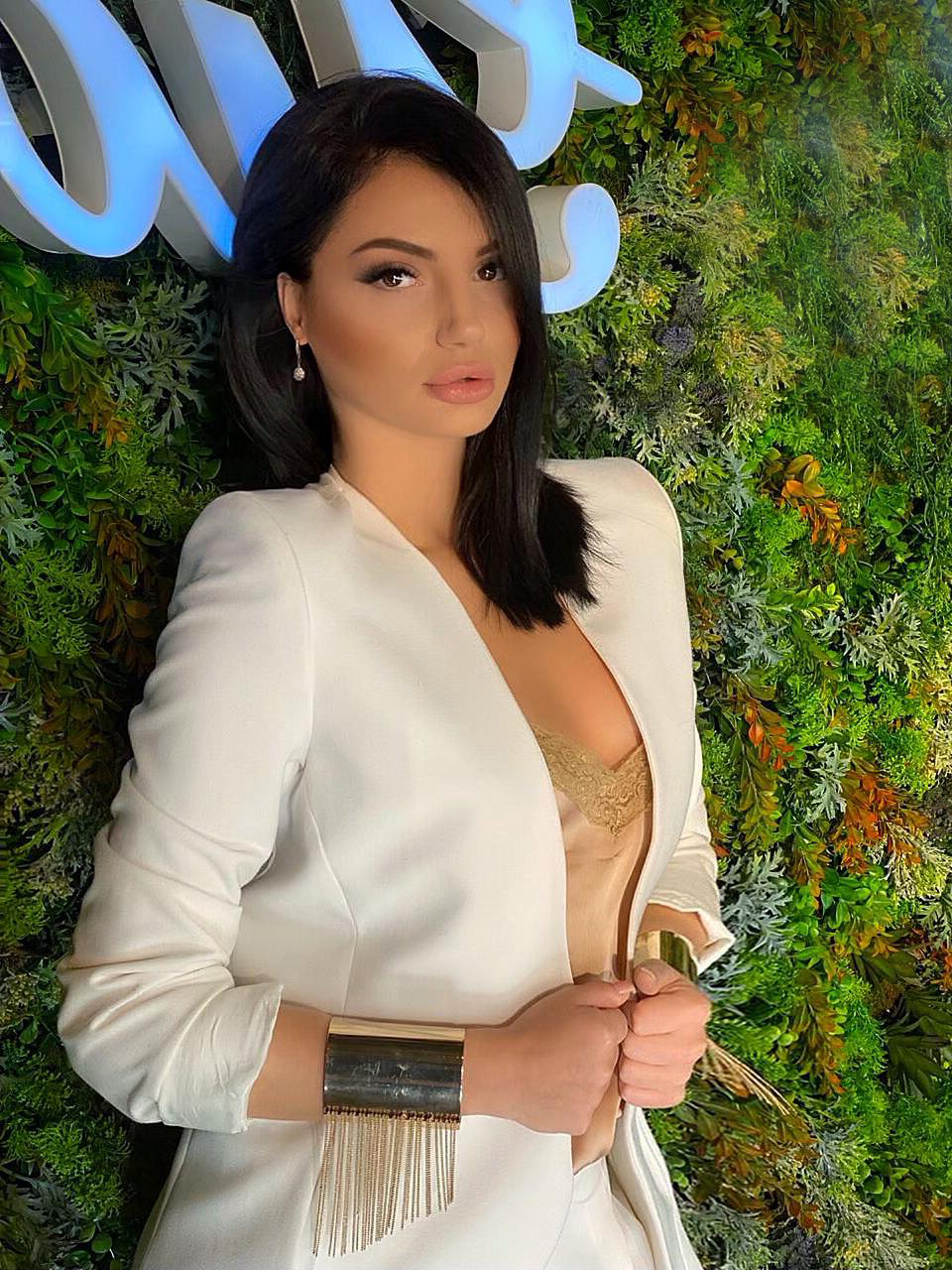 Albanian Actress